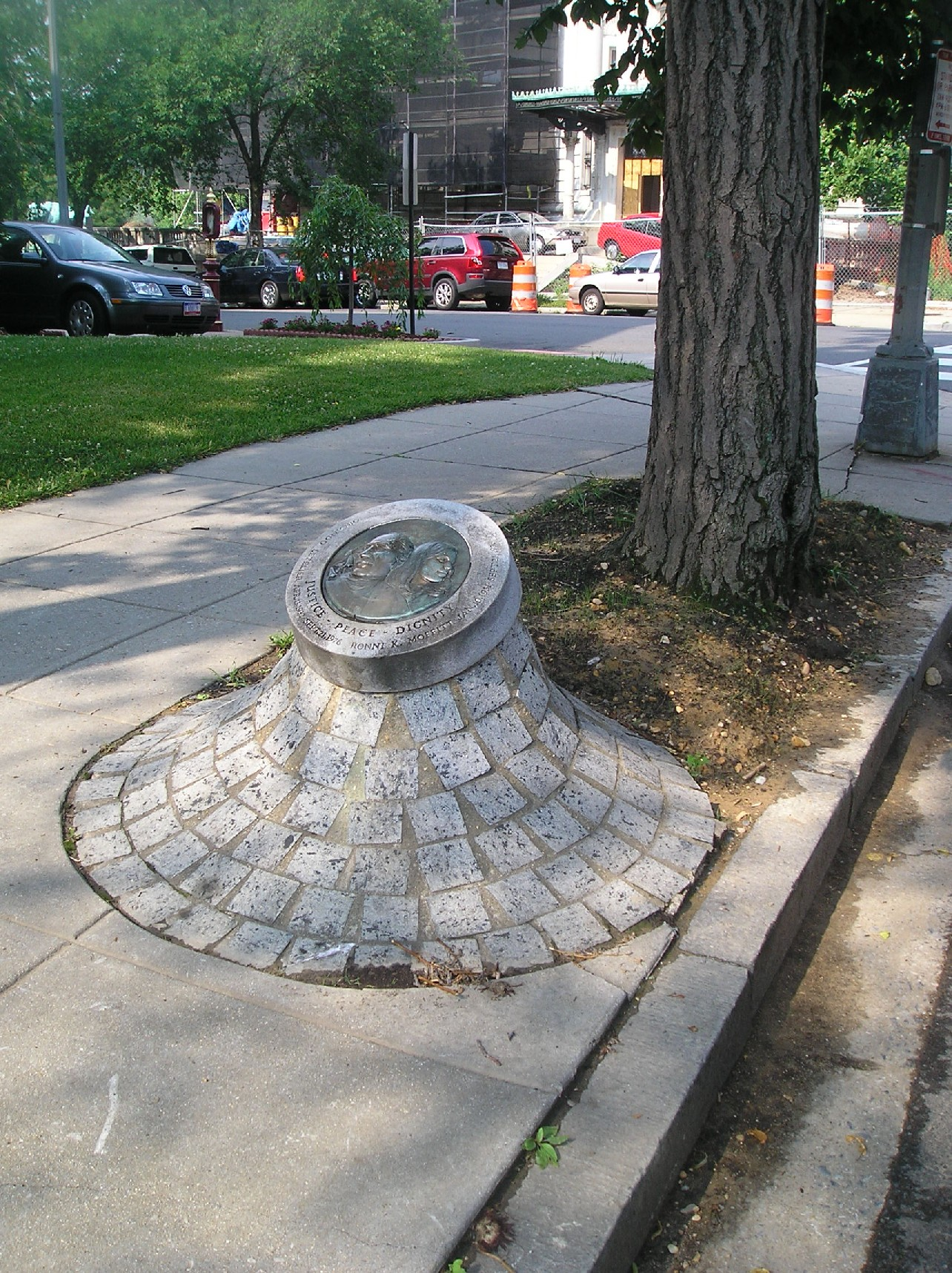 Letelier's Memorial. Sheridan Circle, Washington DC. In this place Orlando Letelier and Ronni Moffitt were murdered on September 21st, 1976.